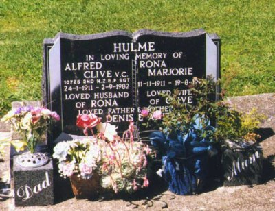 Grave photo of Victoria Cross recipient Alfred Clive Hulme, migrated from the Victoria Cross Reference site with permission. Photo by Terry Macdonald.